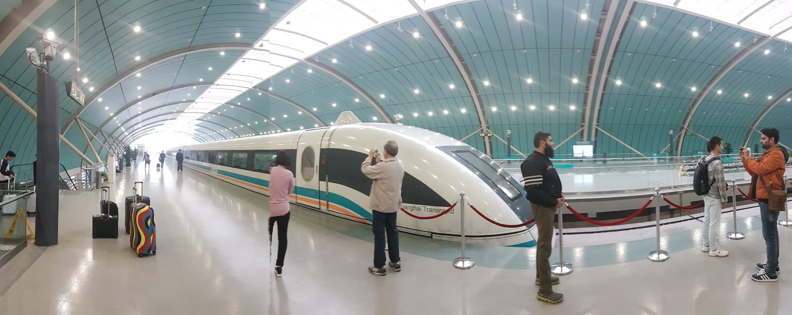 Maglev train at station.